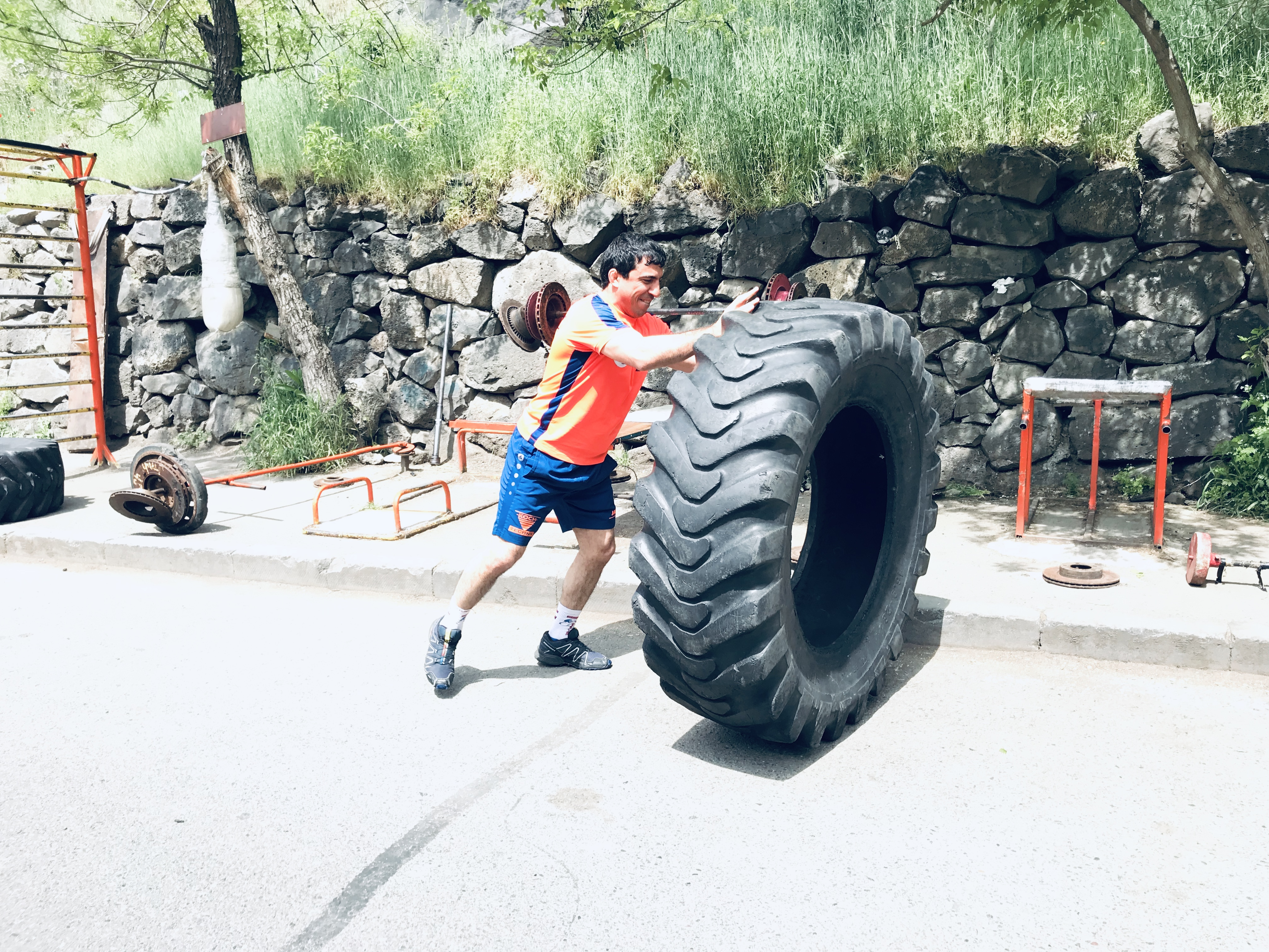 Roman Amiyan in The Open air gym of Hrazdan gorge